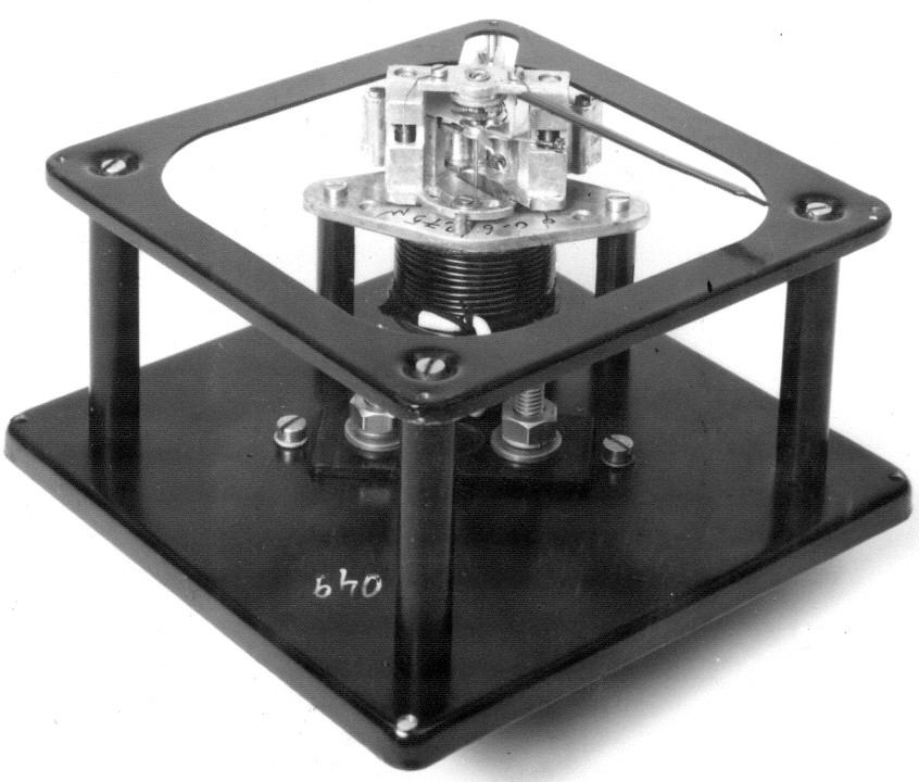 Iron vane ammeter movement. Includes an air damping chamber